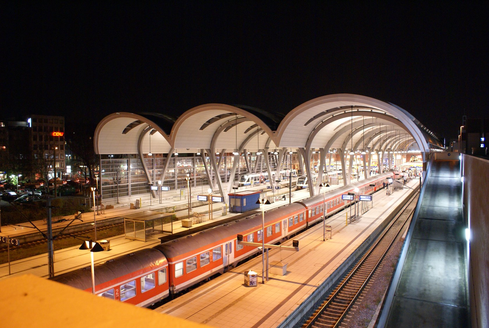 a picture of Kiel (Germany) central station, at night